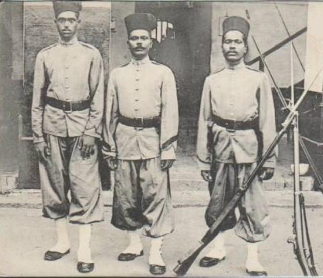 Sepoys from French India (Pondicherry), circa 1905. Postcard.